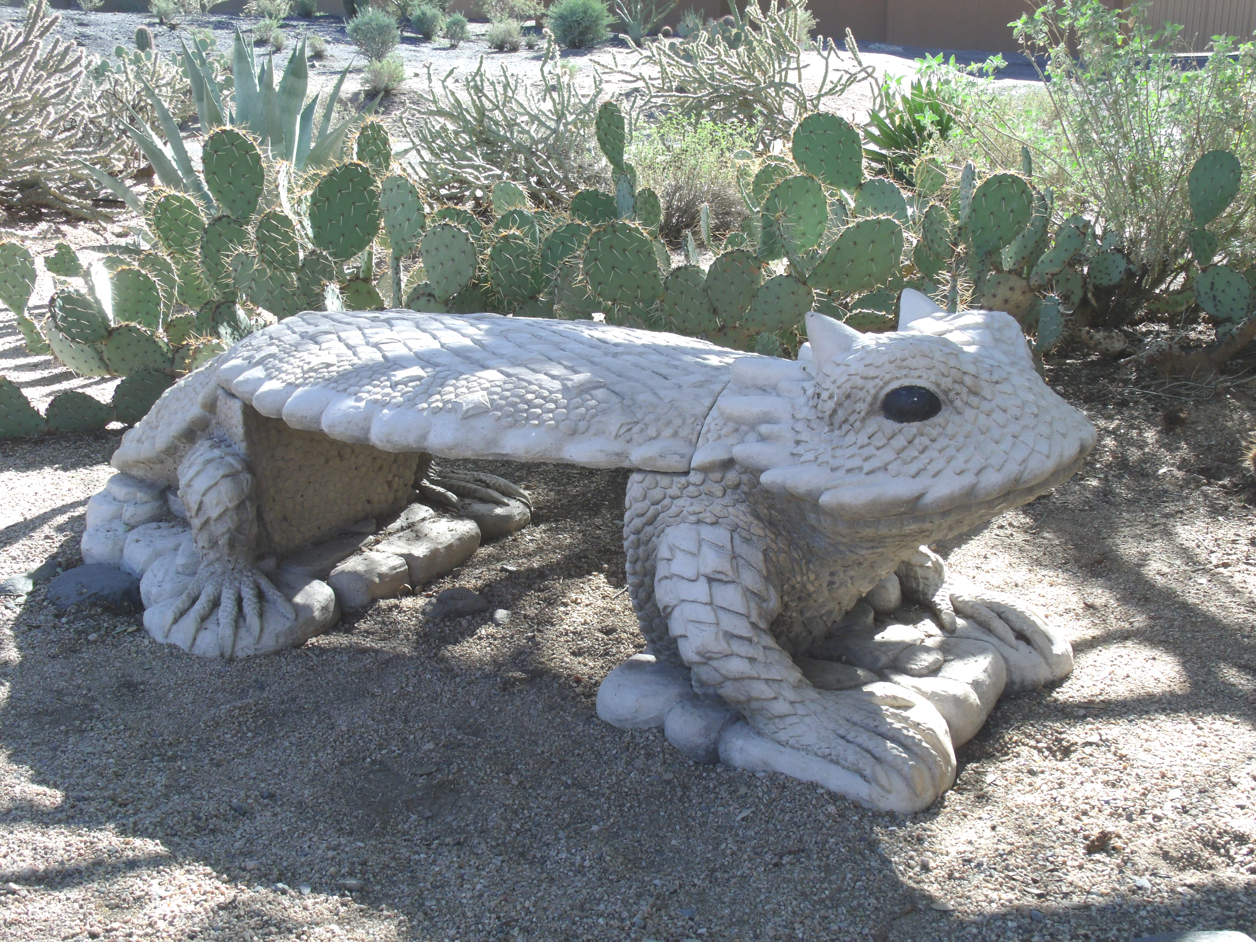 The Cave Creek Museum Lizard Bench the museum is located at 6140 E. Skyline Dr. in Cave Creek Arizona.